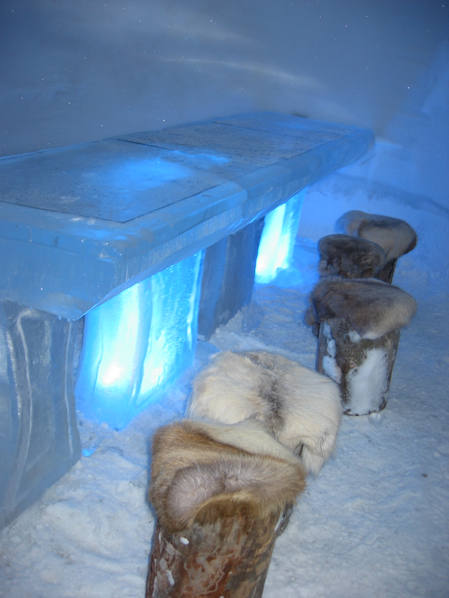 SnowCatle in Kemi, Finland 2006 Dmitry Makarov